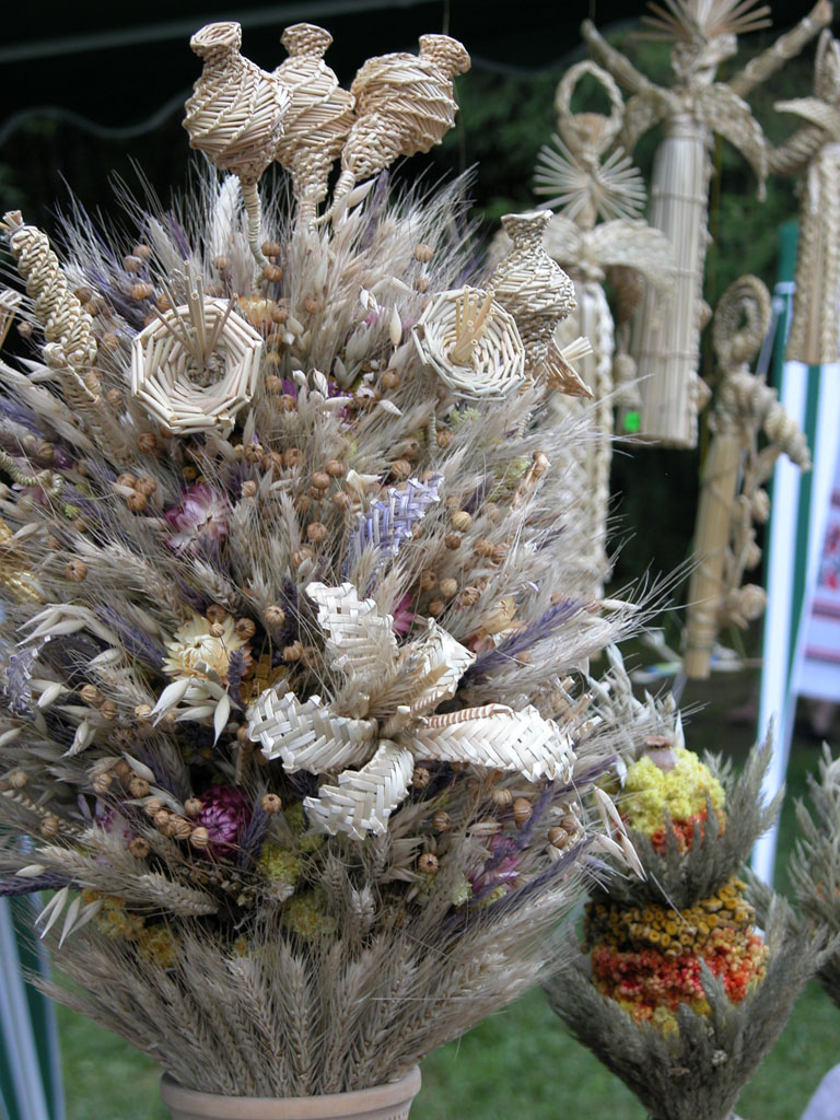 Ukrainian didukh with straw flowers.